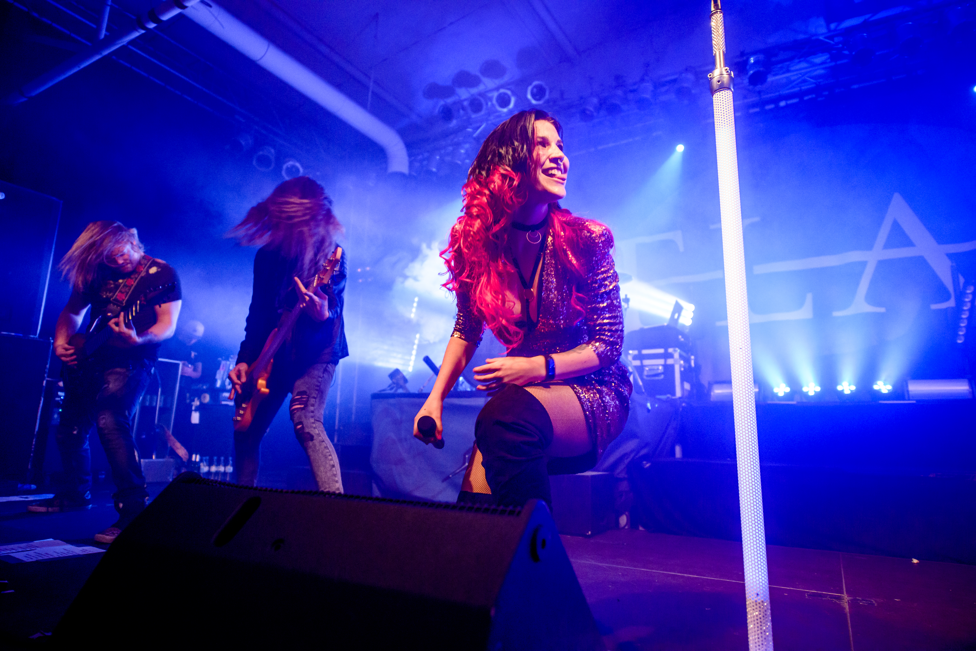 Delain - Moonbathers Tour; Essigfabrik Köln 2016